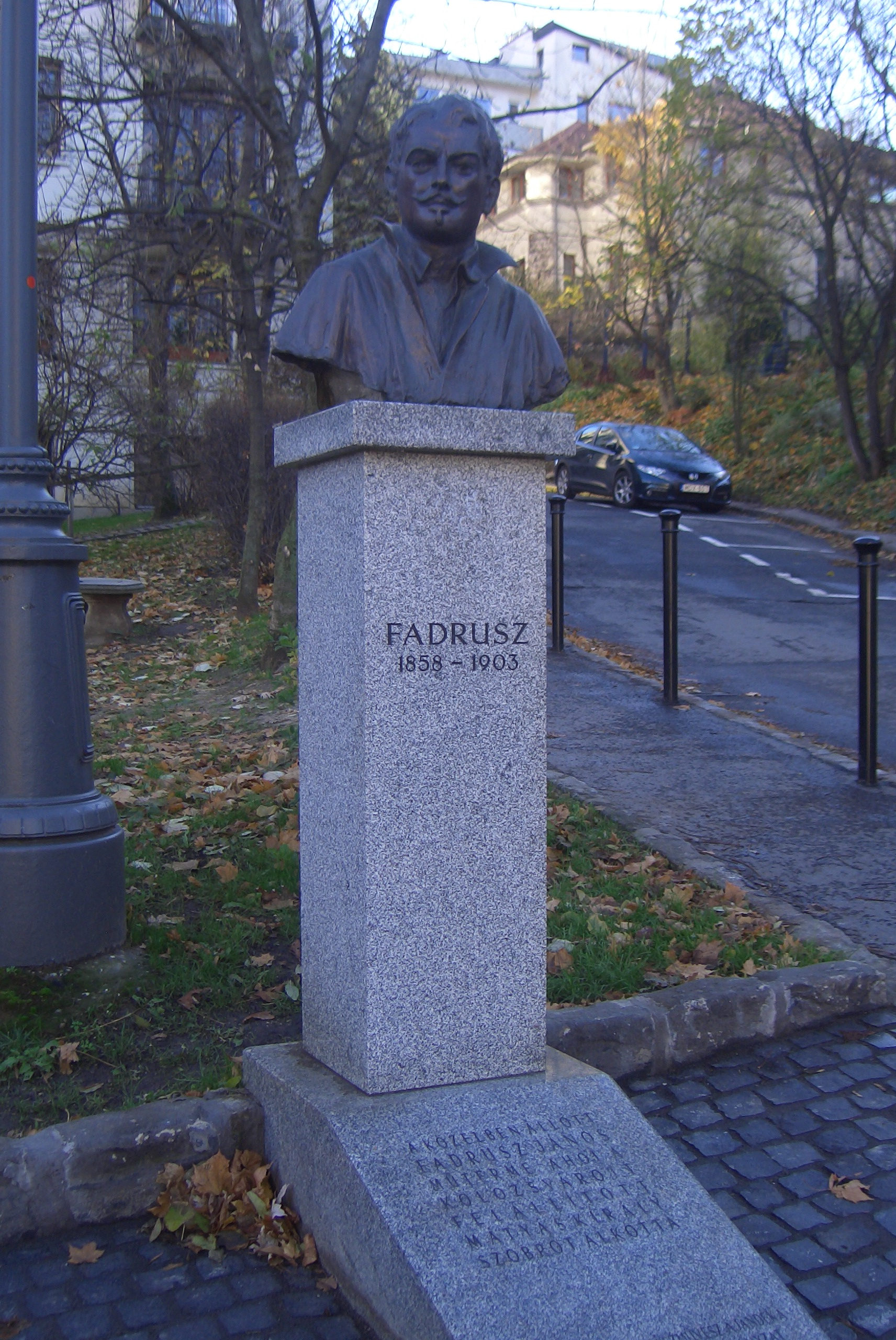 Bust of János Fadrusz in Budapest, 1st district, corner of Naphegy str - Lisznyai str. (near the site of his former atelier), erected in 2010